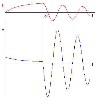 Charge current and voltage in an inductor. Followed by circuit break. No arcs. 2006